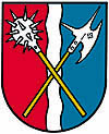 Coat of arms of Alkoven, Upper Austria